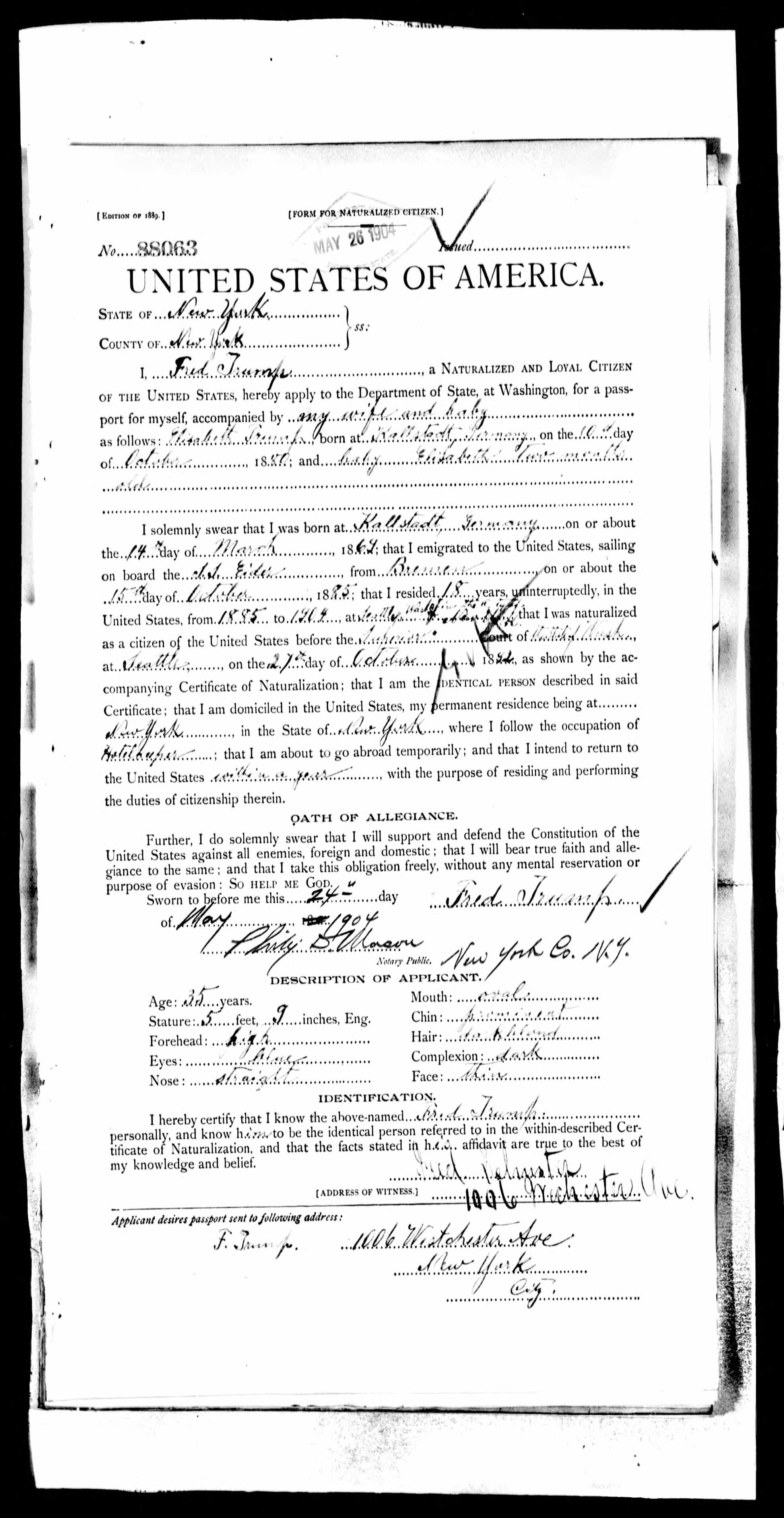 Passport application of Frederick Trump, grandfather of businessman Donald Trump.